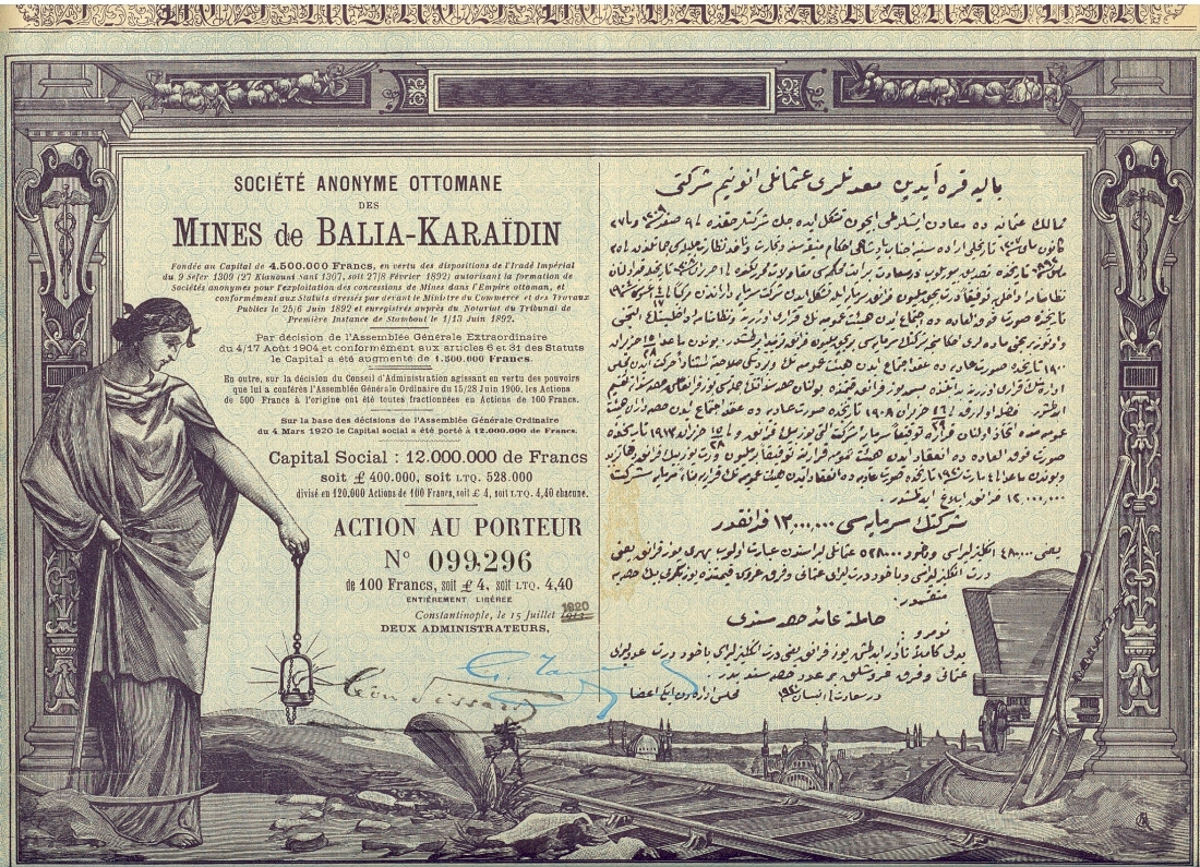 Share certificate for the Société Anonyme Ottomane des Mines de Balia-Karaïdin issued 15 July 1920 (clearly postponed from original planned issue on 15 July 1913) with bilingual text in French and Ottoman Turkish